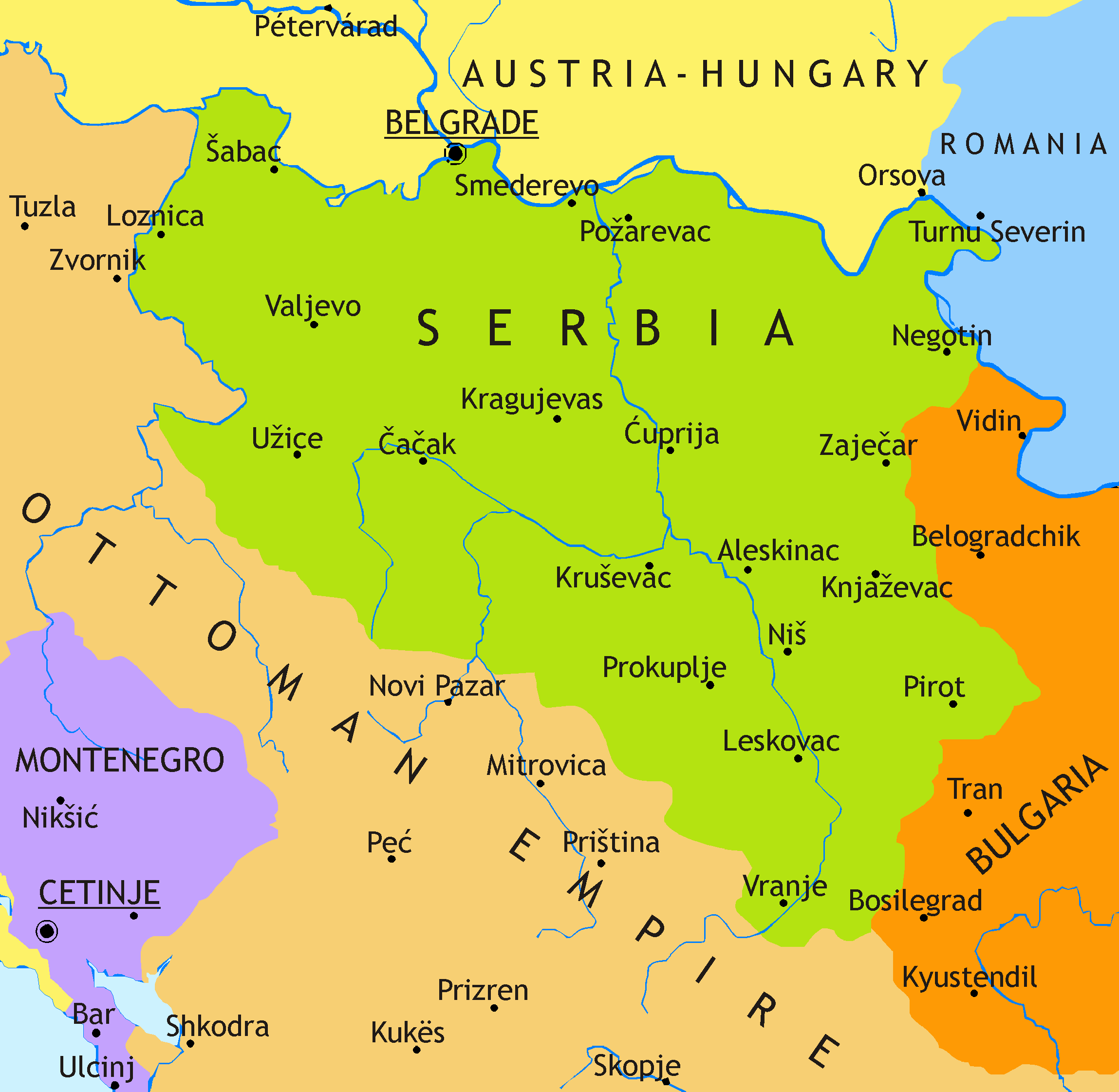 Principality of Serbia after Congress of Berlin in 1878